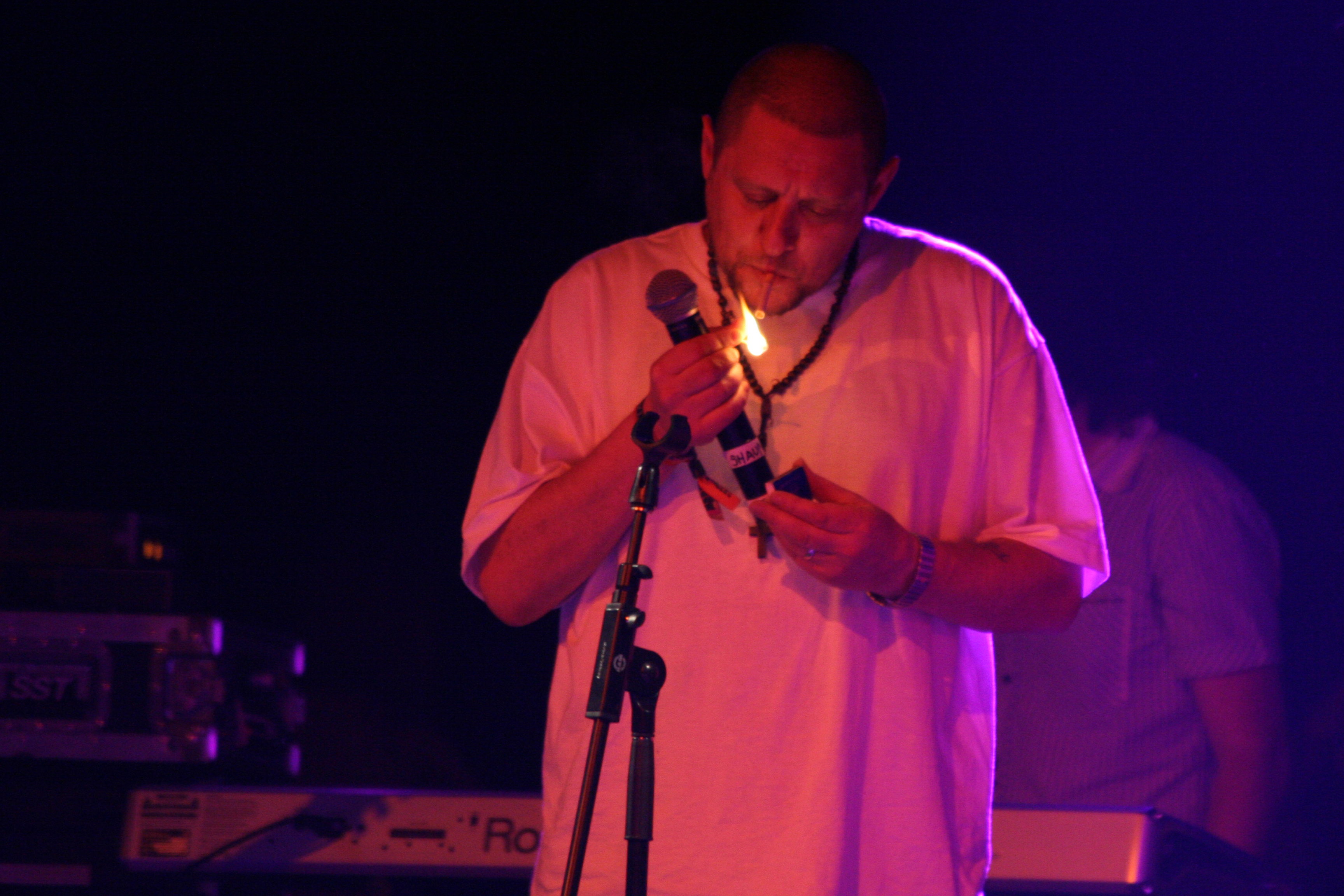 Shaun Ryder during the Happy Monday's reunion set at the 2007 Coachella Music Festival. This was the most he moved the entire concert.